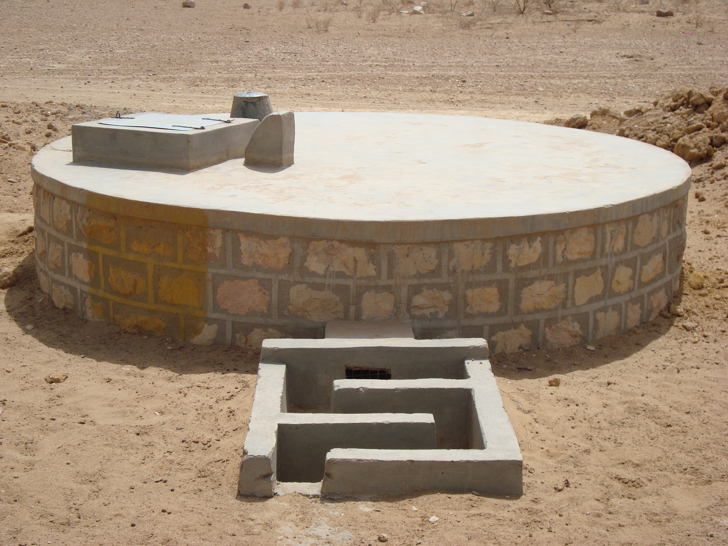 This is a traditional rainwater harvesting tank in Rajasthan India